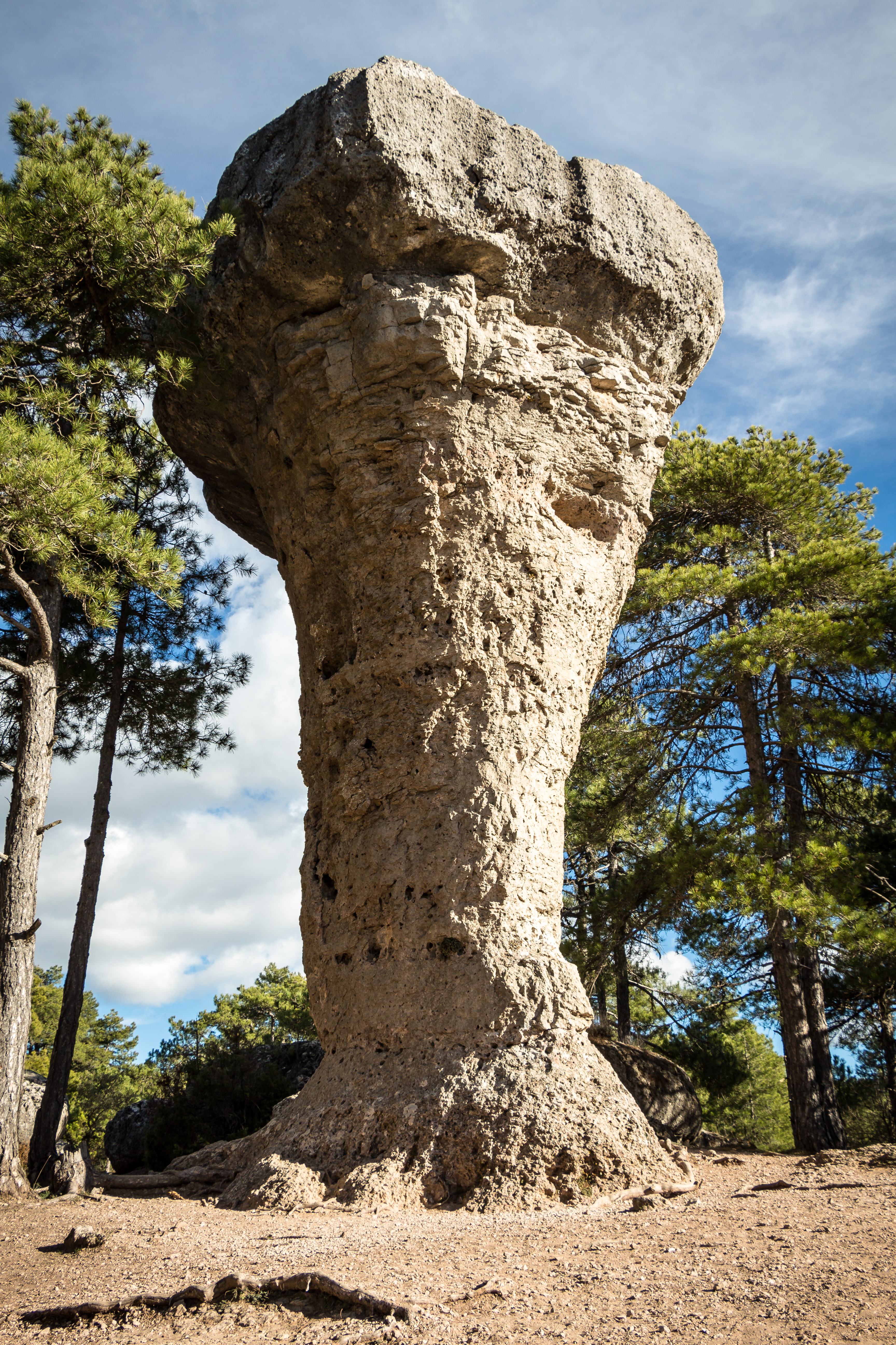 This is a photography of a Special Area of Conservation in Spain with the ID: ES4230014. Natura2000 entry, EEA entry